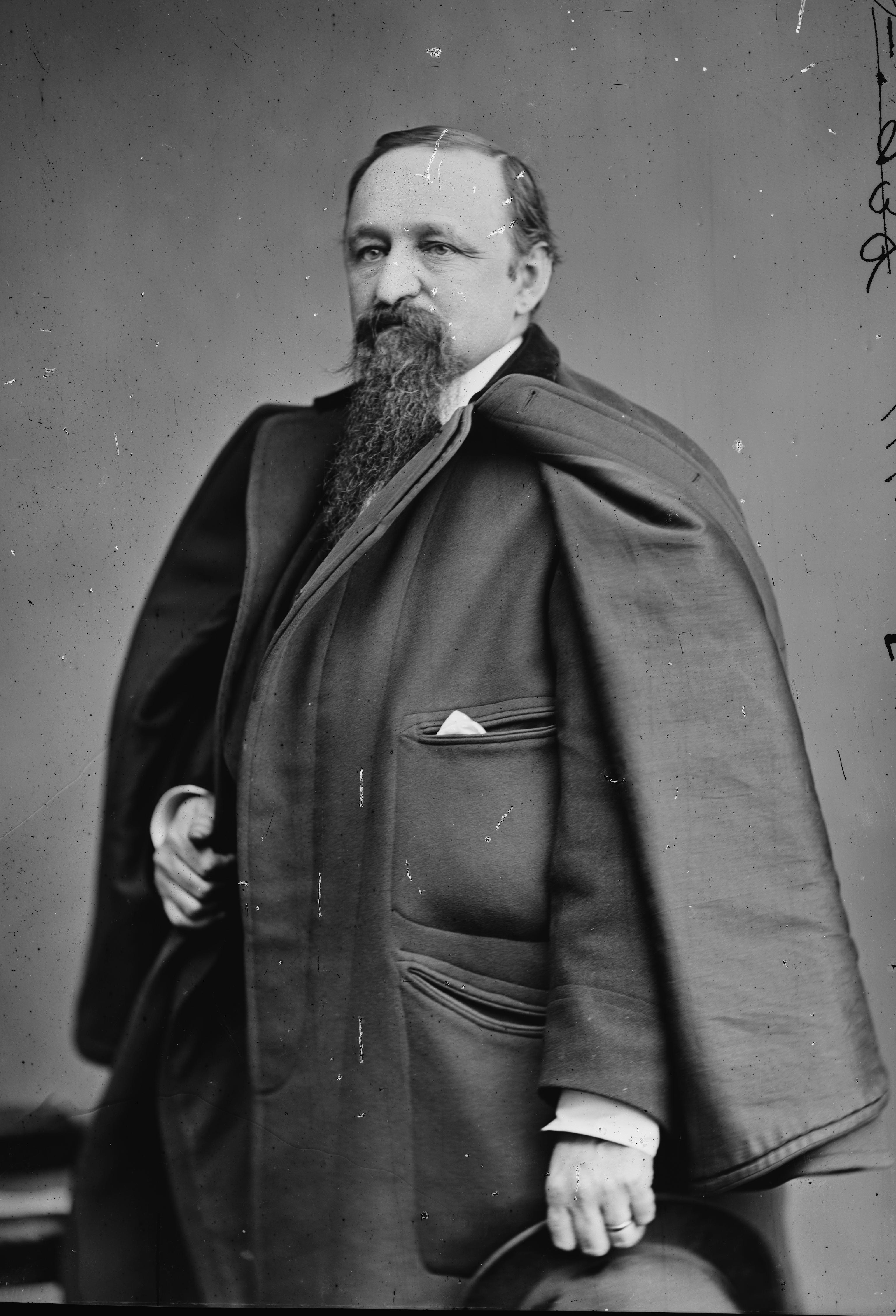 Charles Albright (congressman). Library of Congress description: "Albright, Hon. Chas. of PA."